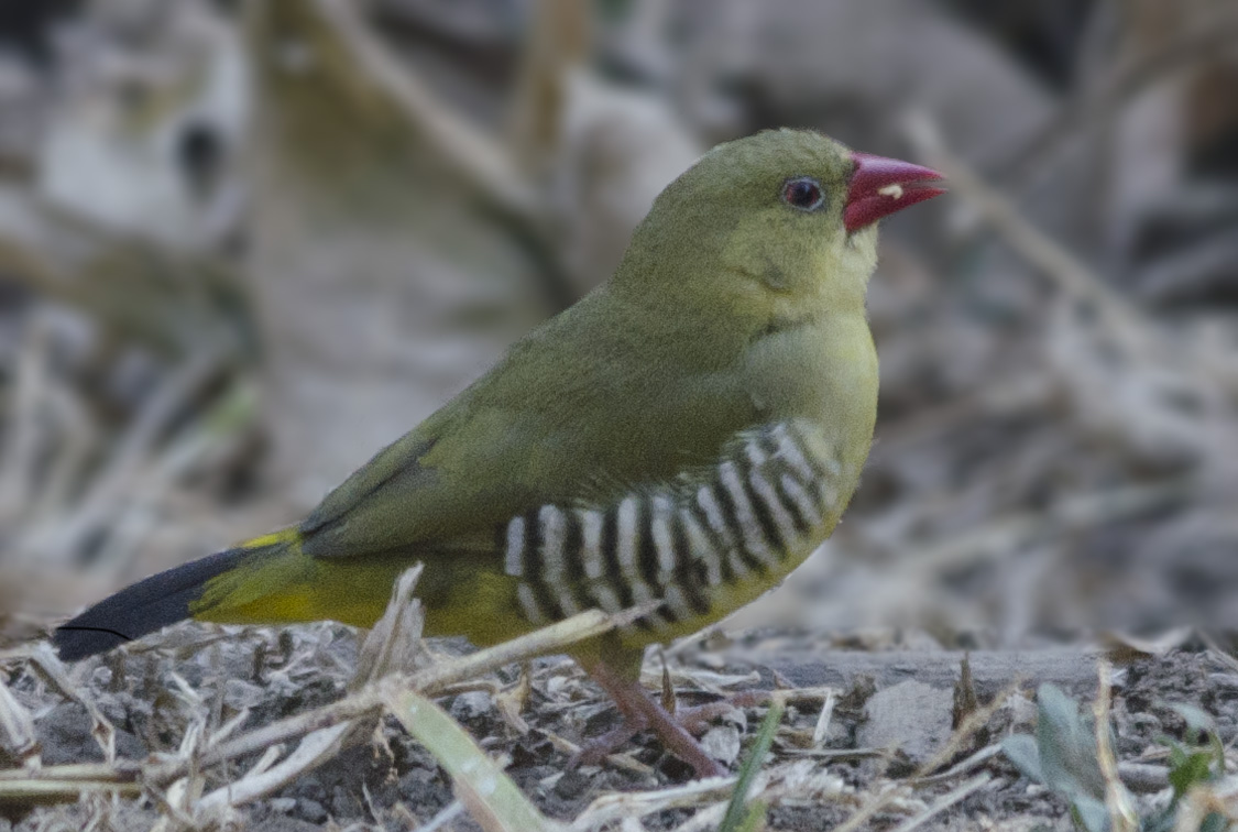 Green Munia (Amandava formosa) at Mount Abu